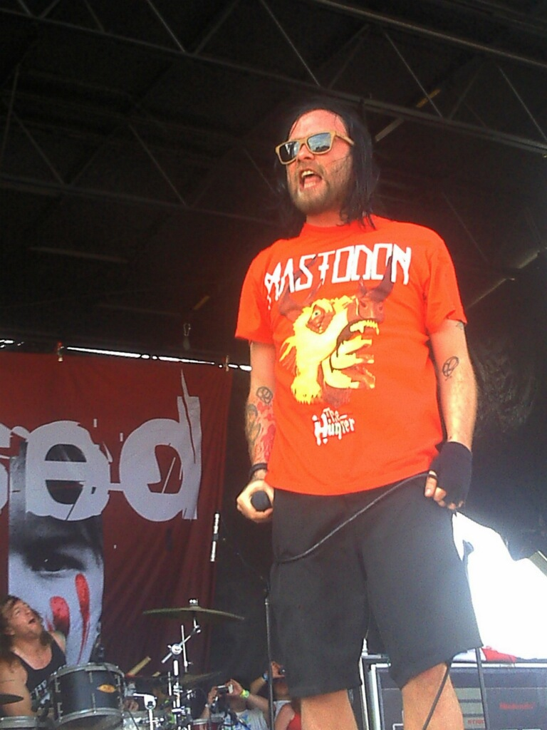 Bert McCracken at Warped Tour '12